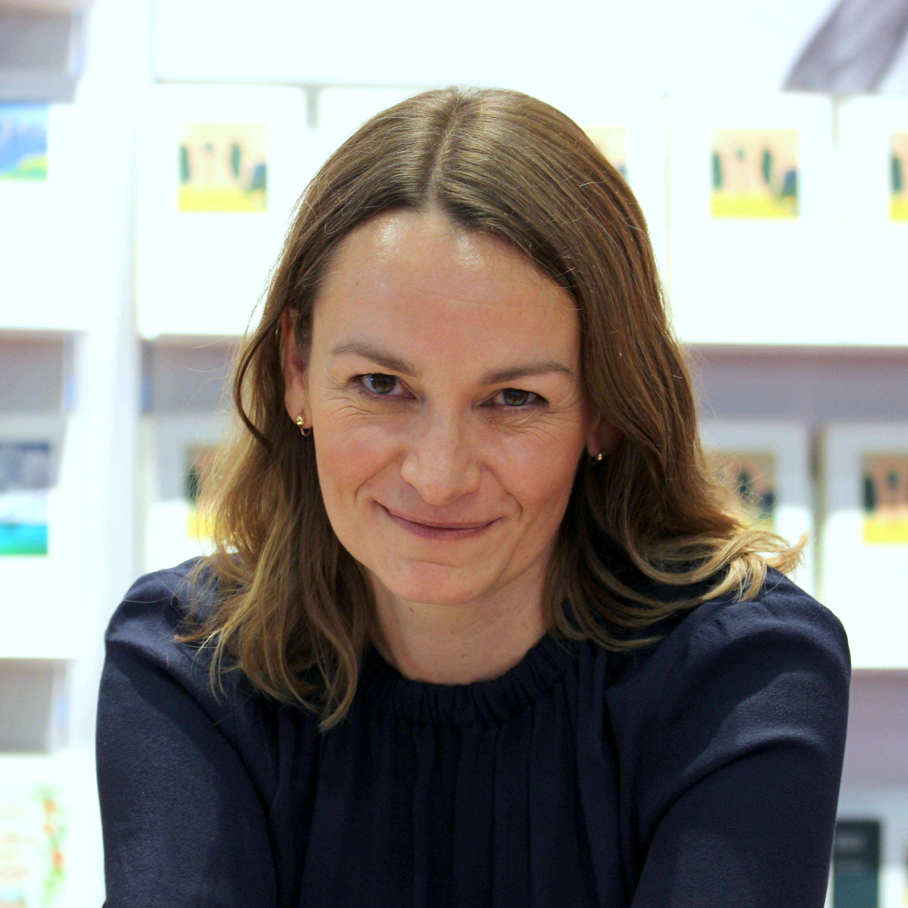 Anne Reinecke Frankfurt Book Fair 2018